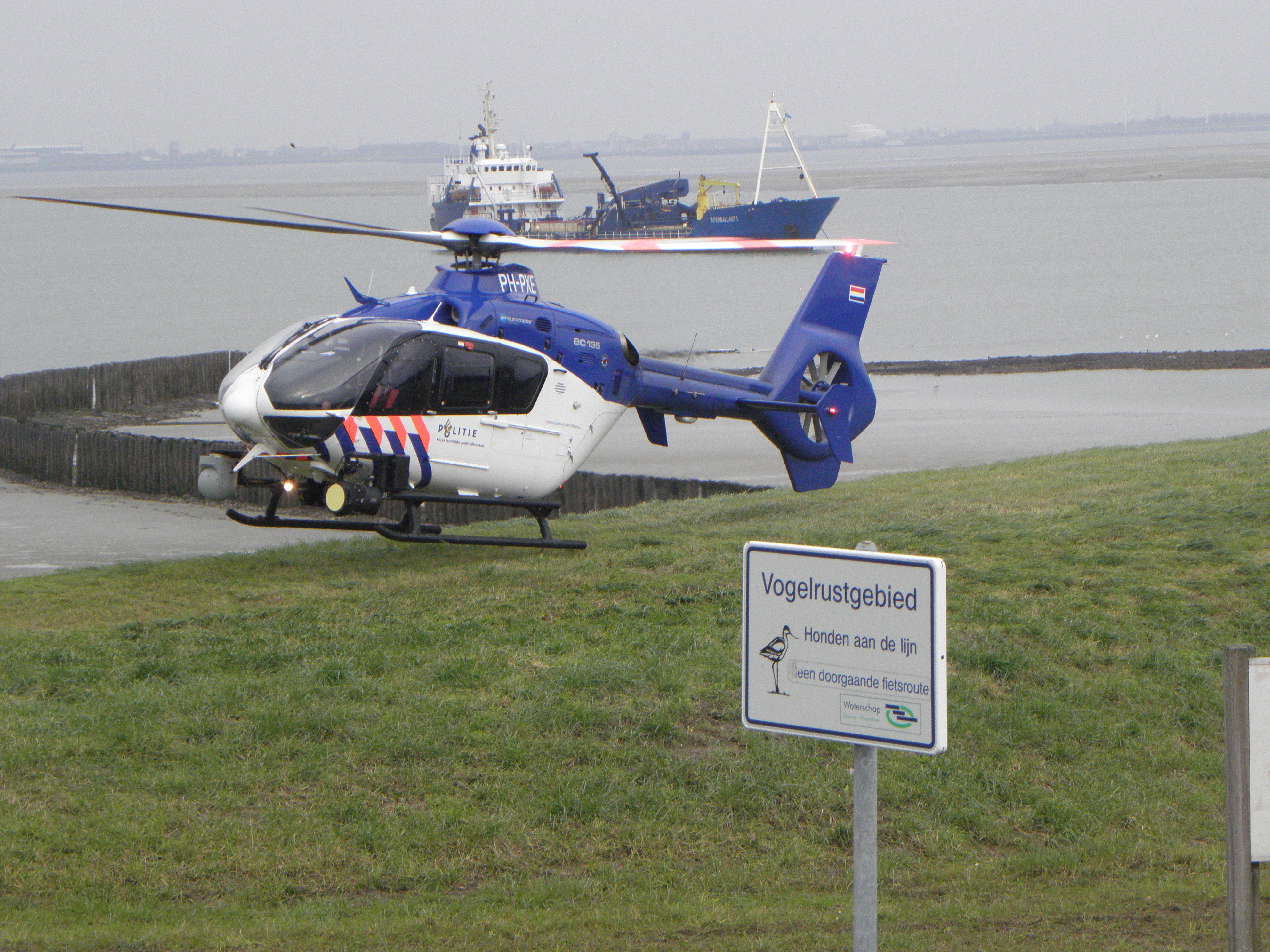 Dutch police helicopter